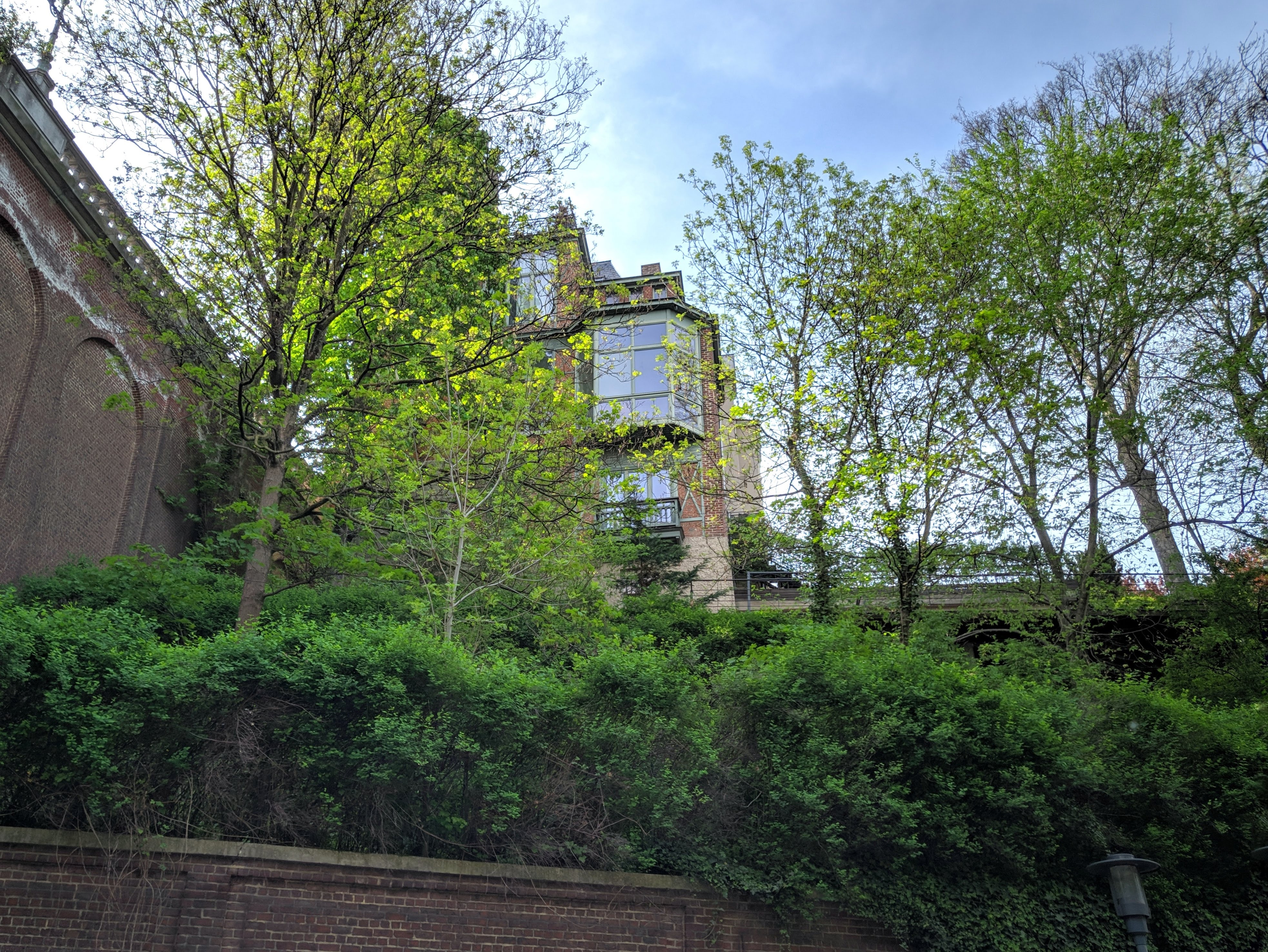 Façade latérale du bâtiment au 40, avenue de la Couronne. Photo prise depuis la rue Gray, en contrebas.